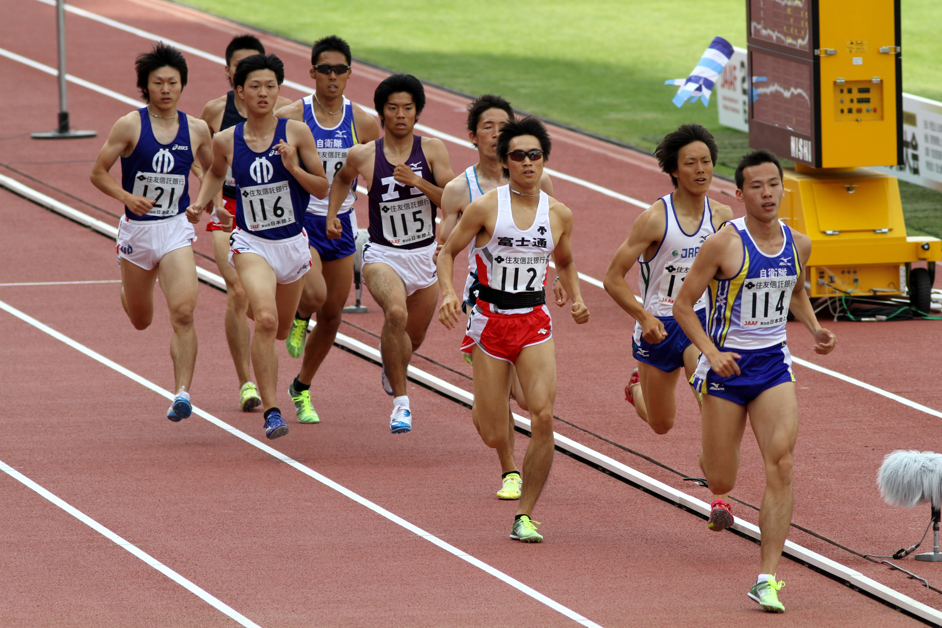 横田 正人(富士通) 第94回日本陸上競技選手権大会